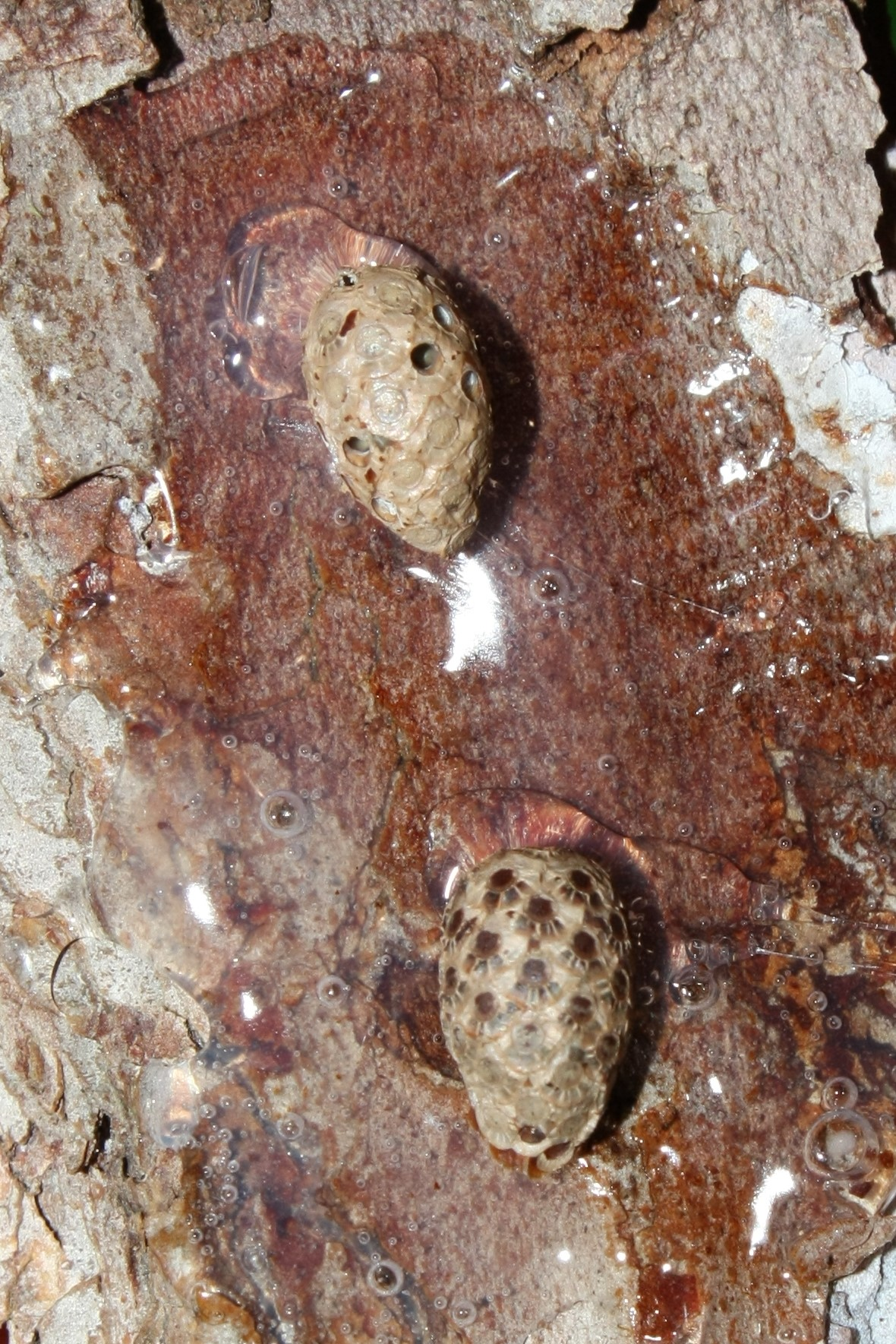 Two oothecae of Phasmatodea subfamily Korinninae